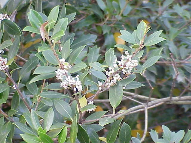 Species: Osmanthus heterophyllus Family: Oleaceae Image No. 2